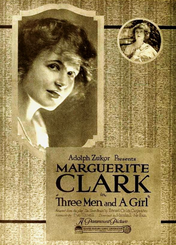 Advertisement for the American romantic comedy film Three Men and a Girl (1919) with Marguerite Clark, on page 1726 of the March 29, 1919 Moving Picture World.